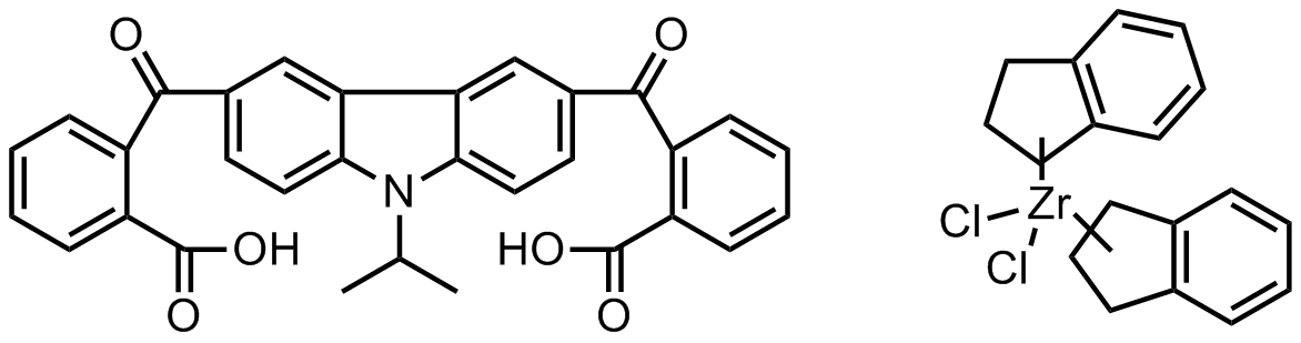 benzoyl peroxide-3,6-bis(o-carboxybenzoyl)-N-isopropylcarbazole-di-η5-indenylzicronium dichloride